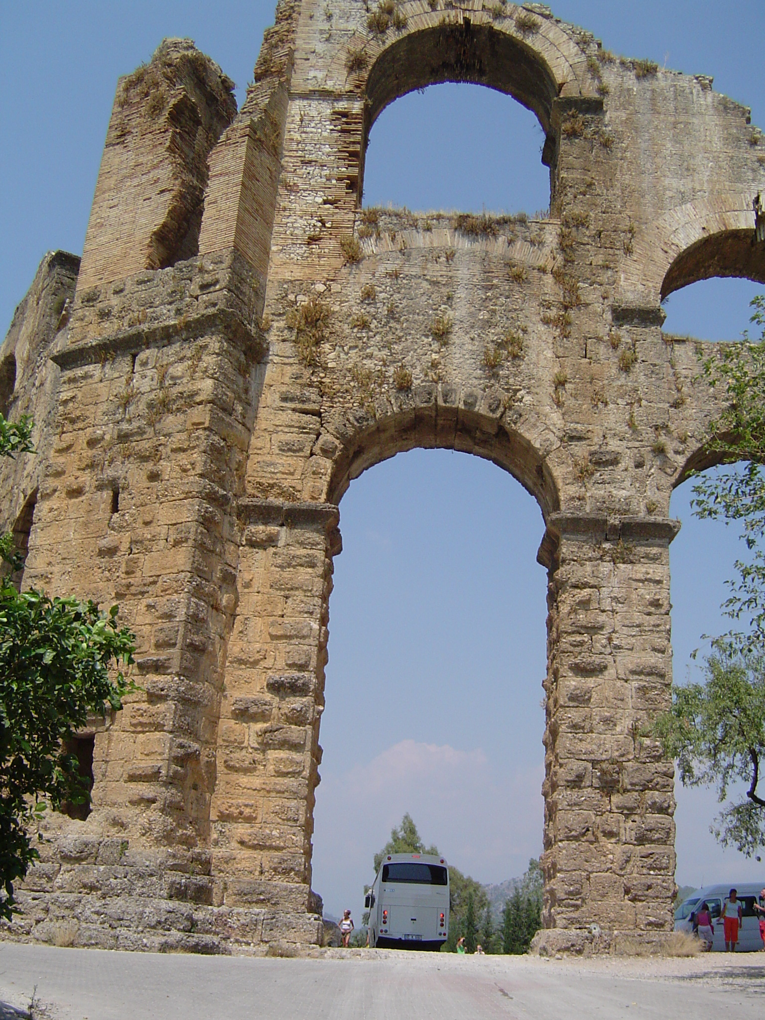 Aspendos Roman Aquaduct, Turkey Made in 2004